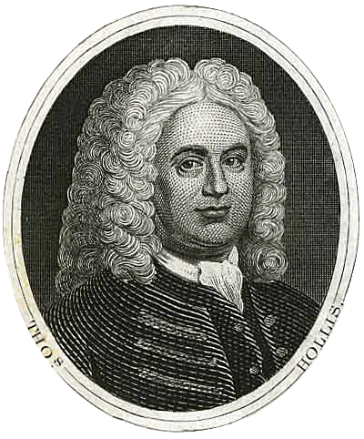 Thomas Hollis (b. 1659, d. 1731), a London merchant, benefactor of Harvard College and for whose namesake the Town of Holliston is known by.